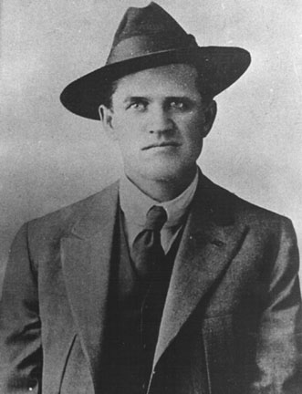 Frank Little (1879-1917) was an American labor leader. He joined the radical union the Industrial Workers of the World (IWW) in 1906. He organized miners, lumberjacks and oil field workers.